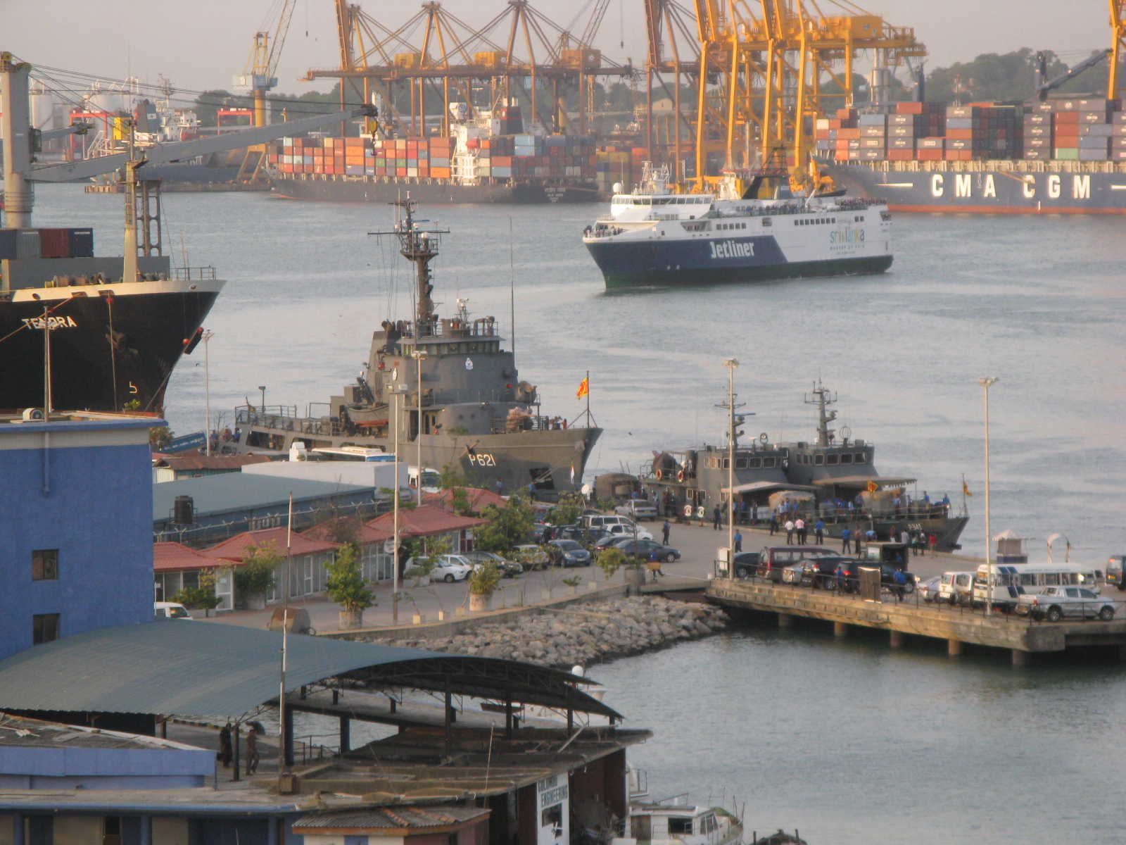 Offshore Patrol Vessel SLNS Samudura (P 621), Fast Gun Boats SLNS Prathapa (P 340) & SLNS Udara (P 341), Fast Personal Carrier SLNS Jetliner (A 542) - Sri Lanka Navy